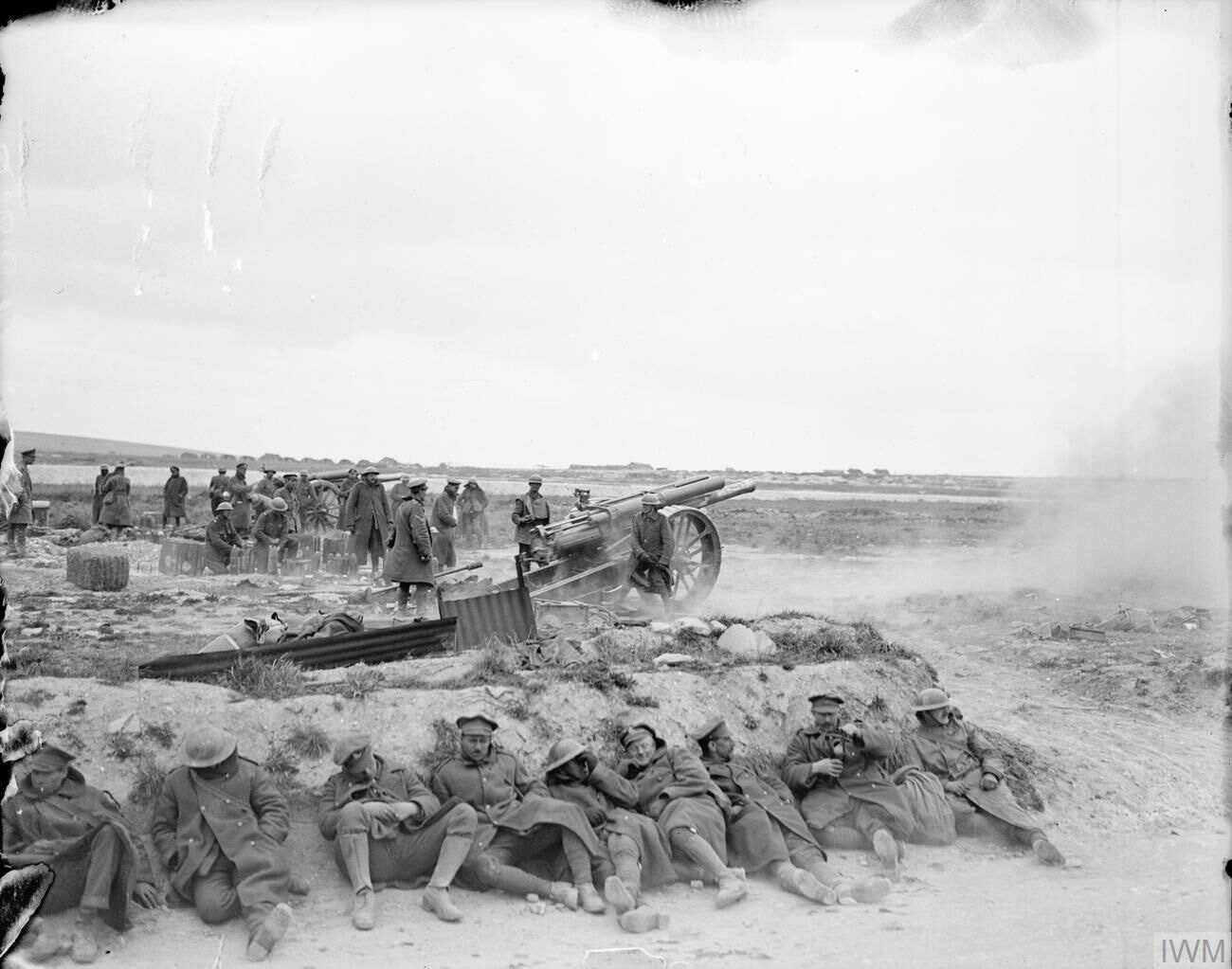 The German Spring Offensive, March-july 1918 First Battle of Bapaume (Operation Michael). A 60 pounder Mark II battery of the Royal Garrison Artillery in action in the open near La Boisselle, 25 March 1918. Note a line of soldiers resting in the foreground.